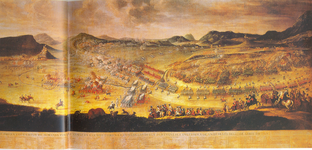 Battle of Almansa (re-uploaded with correct license).